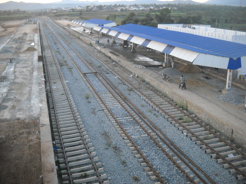 Constructed Chikmagalur Railway station